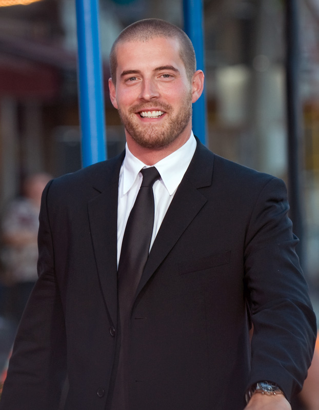 Matt Grant at the Get Smart premiere, Fox Theater, Westwood, CA.